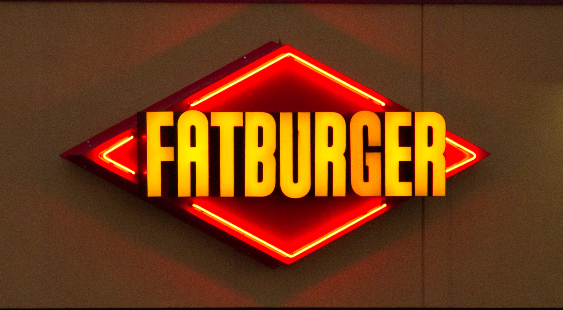 Linda was amazed that they actually advertised a diner called FATBURGER